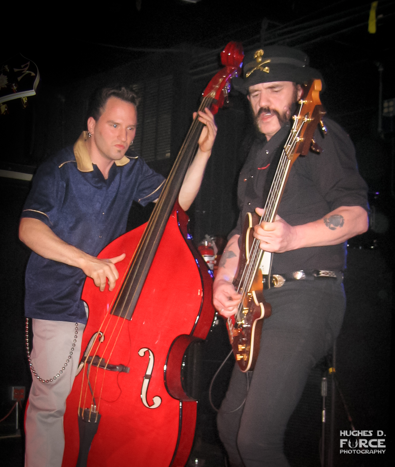 Djordje Stijepovic (upright bass, at left) & Lemmy Kilmister (electric bass, at right) of the Head Cat on stage at El Corazon in Seattle (April 12, 2007)